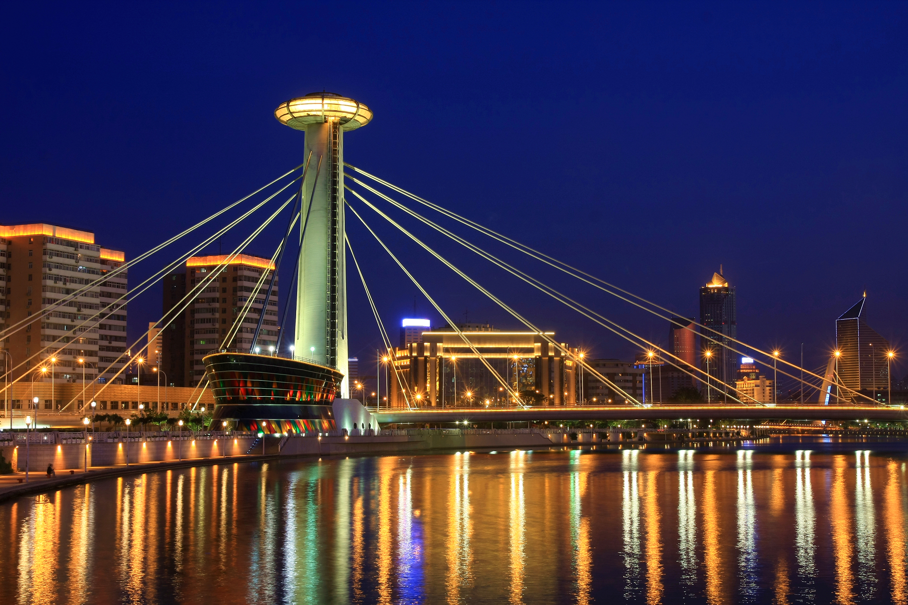 Chifeng Bridge in Tianjin